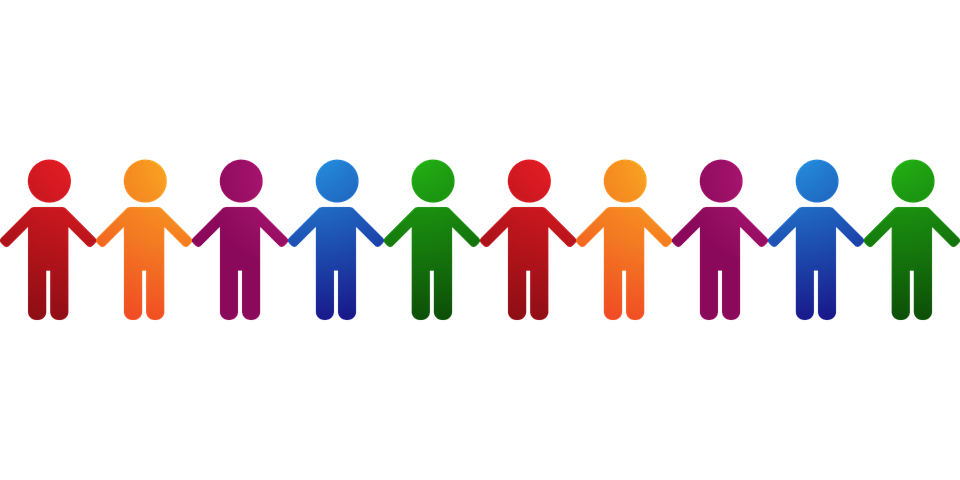 A PNG of children holding hands.